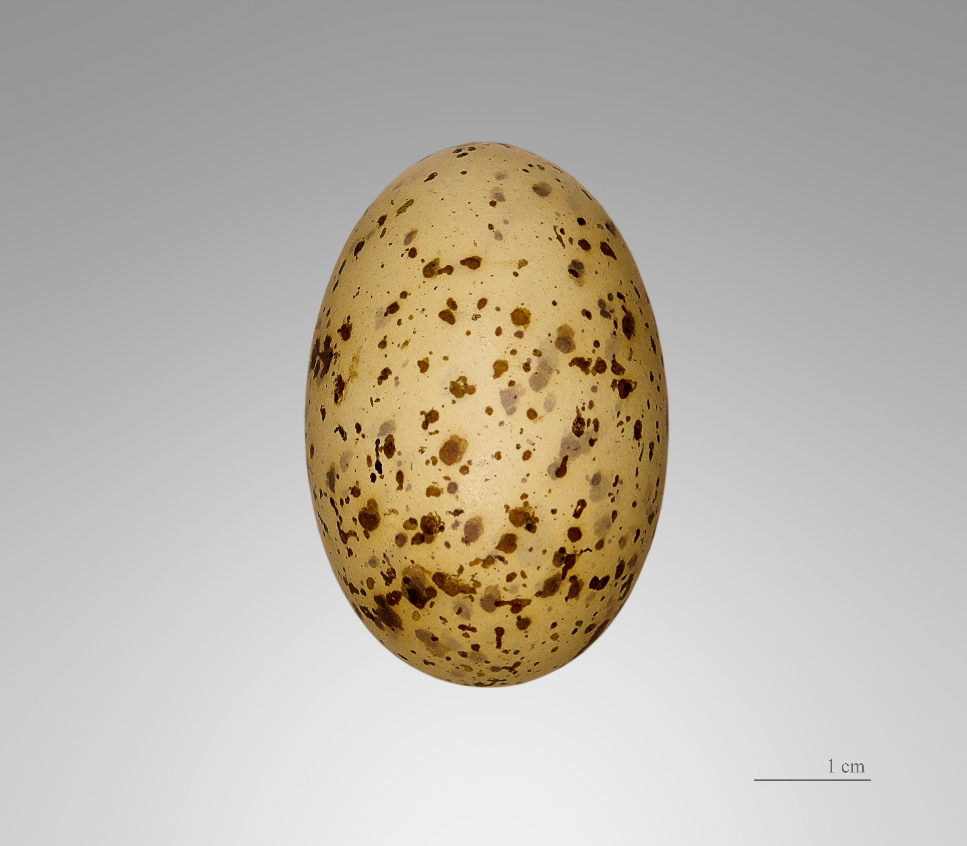 Egg of Pallas's Sandgrouse. Collection of Jacques Perrin de Brichambaut. Locality: Turkestan, Russia.